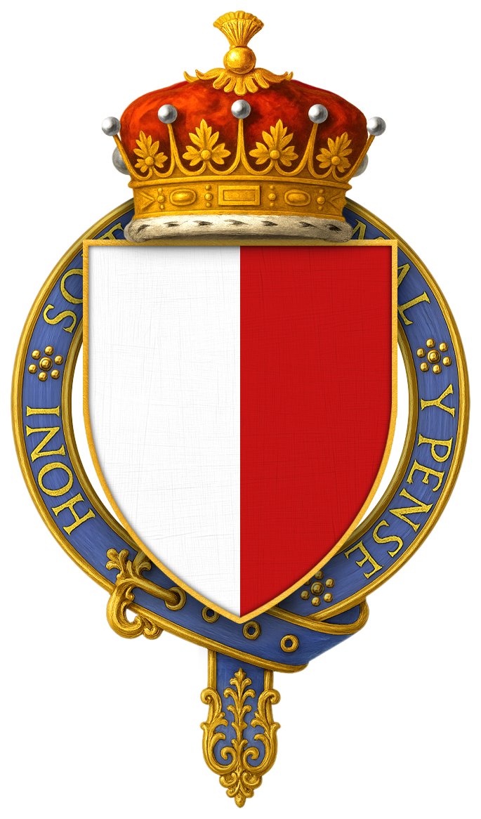 Coat of Arms of Geoffrey Waldegrave, 12th Earl Waldegrave: Per pale argent and gules.